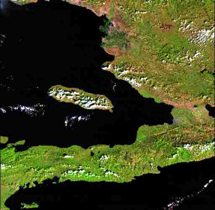 Satellite photo of the Gulf of Gonâve, with Port au Prince and Gonâve Island.